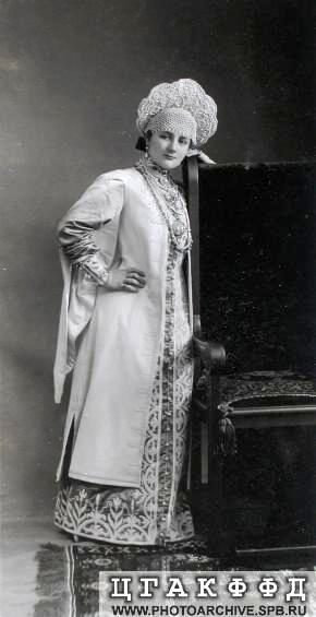 D.M. Bibikova, lady-in-waiting to the Empress